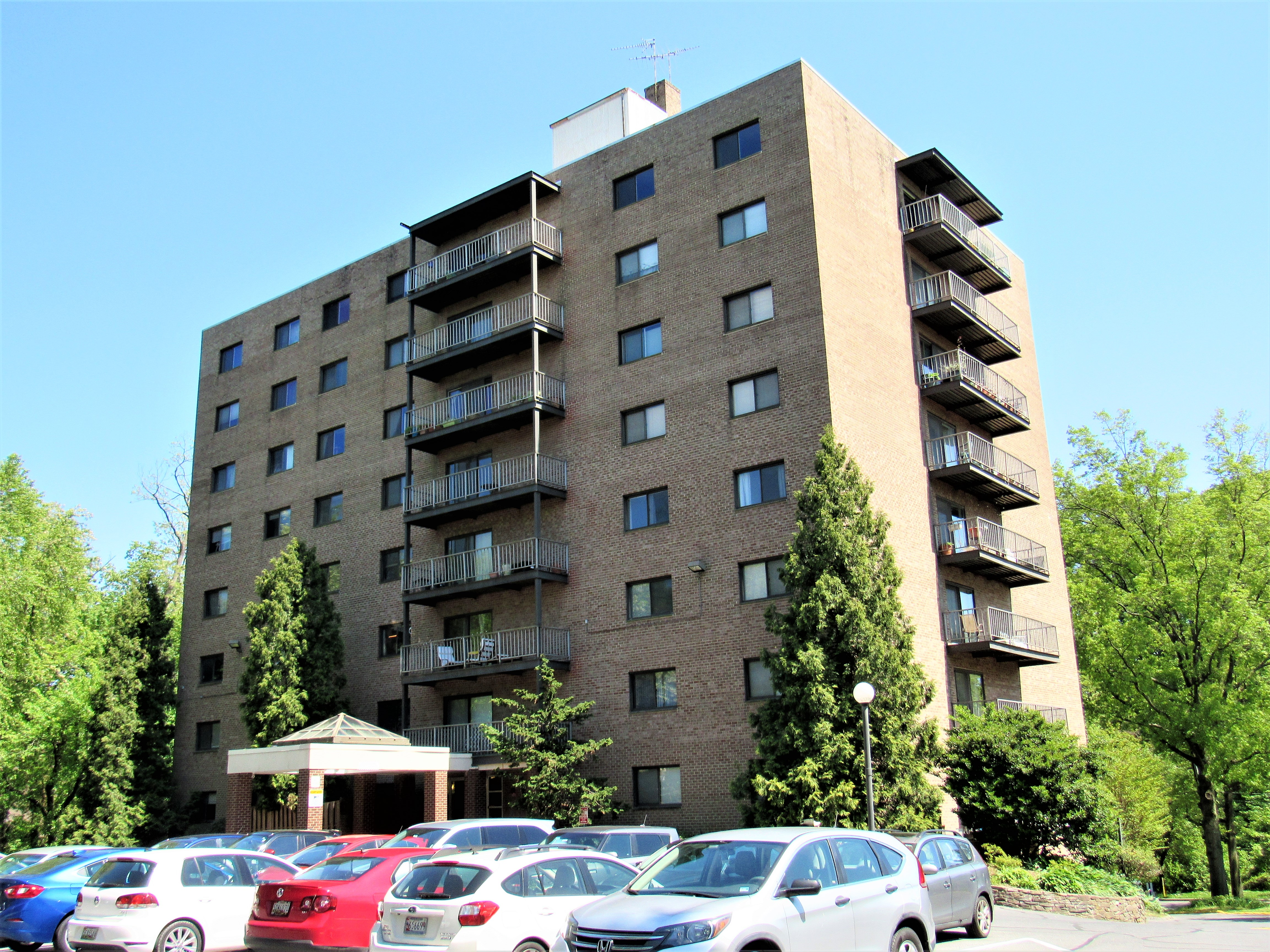 Thayer Towers Condominium on Thayer Avenue in Silver Spring, Maryland.